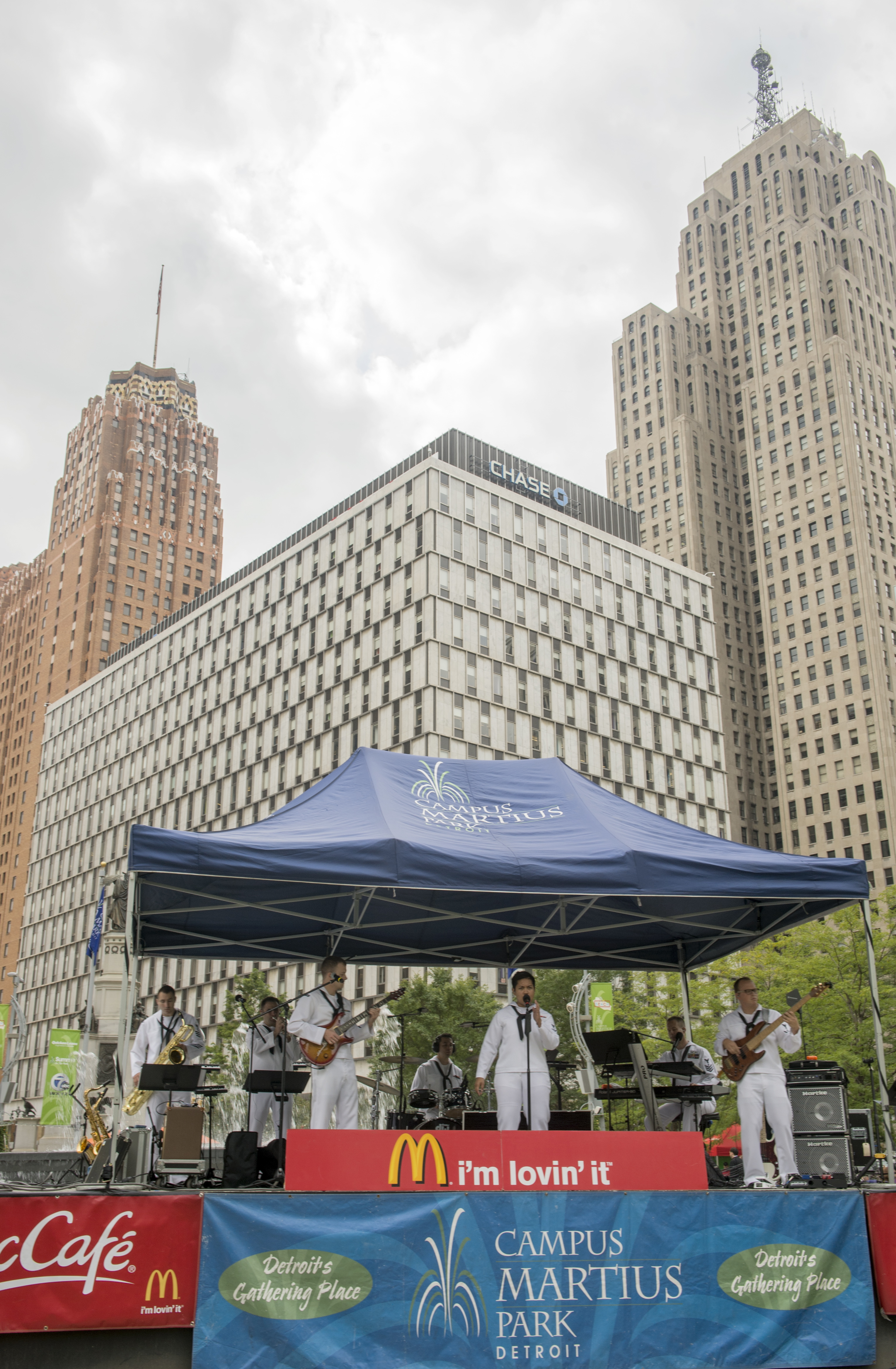 150828-N-CI175-009 DETROIT (Aug. 28, 2015) Musicians assigned to the Navy Band Great Lakes Popular Music Group Horizon perform at downtown Detroit's Campus Martius Park as part of Detroit Navy Week. Navy Weeks focus a variety of assets, equipment and personnel on a single city for a week-long series of engagements designed to bring America's Navy closer to the people it protects, in cities that don't have a large naval presence. (U.S. Navy photo by Mass Communication Specialist 1st Class Jon Rasmussen/Released)